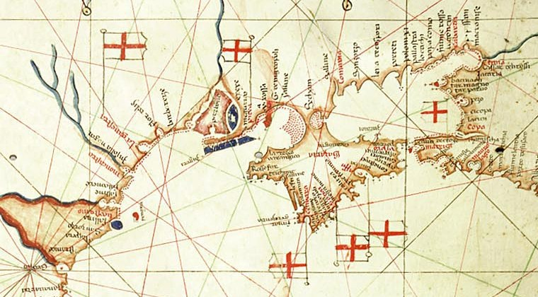 The east of 1489 Portolan Chart. From the Black Sea at the top to the Red Sea at the bottom.